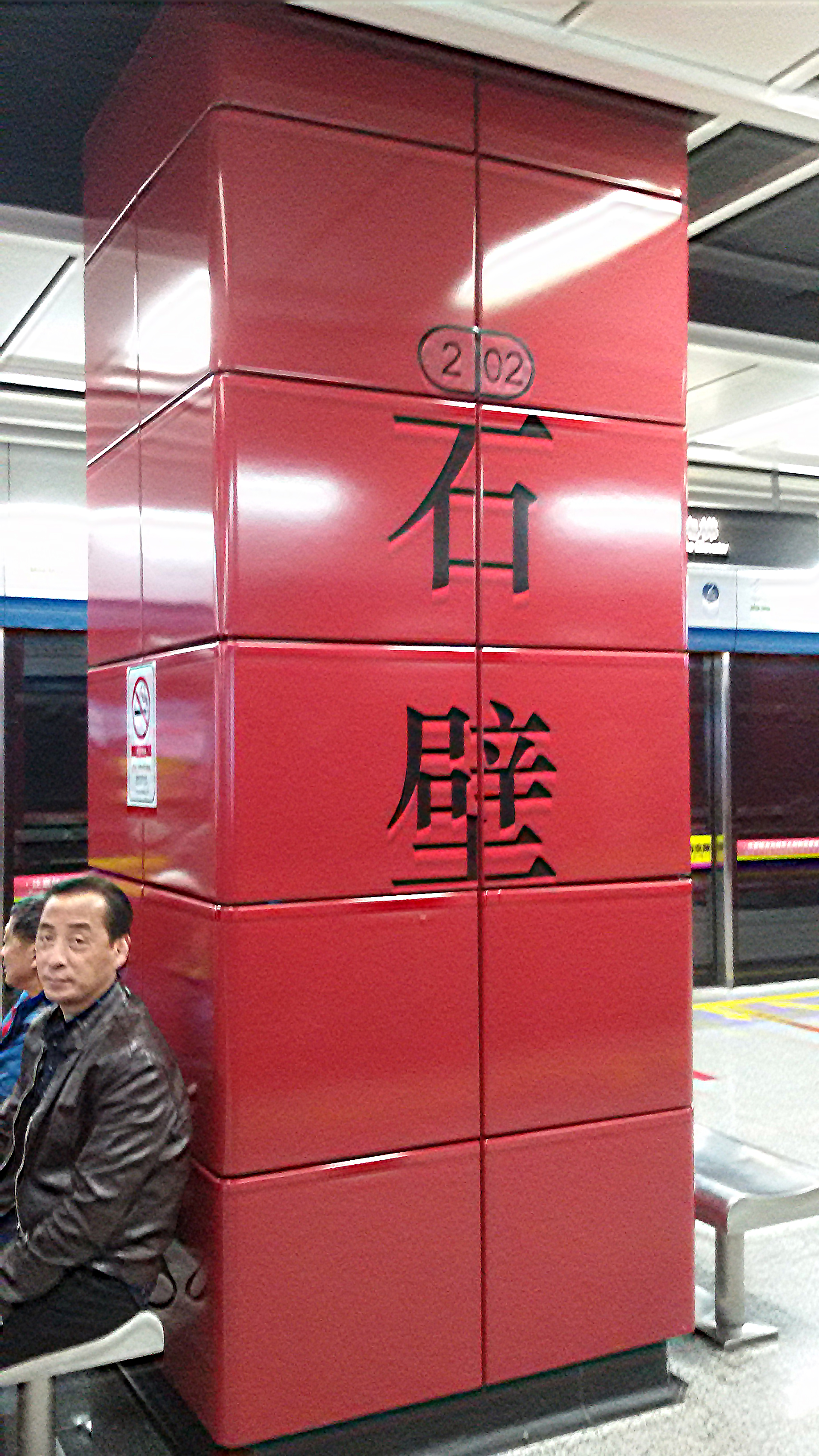 粵語: 廣州地鐵，石壁站嘅柱上啲字（2號綫）。